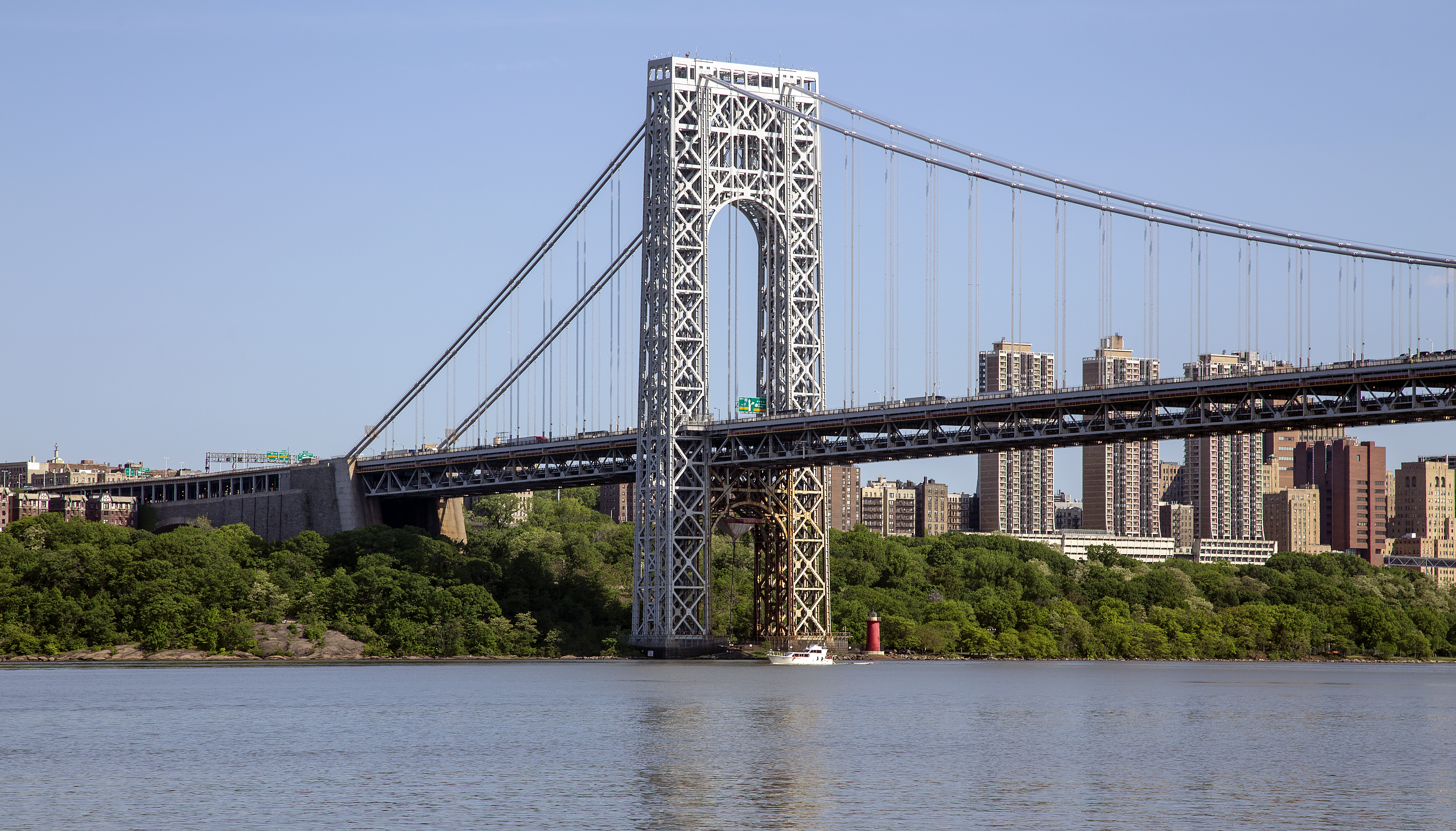 The George Washington Bridge's east tower from Englewood boat basin